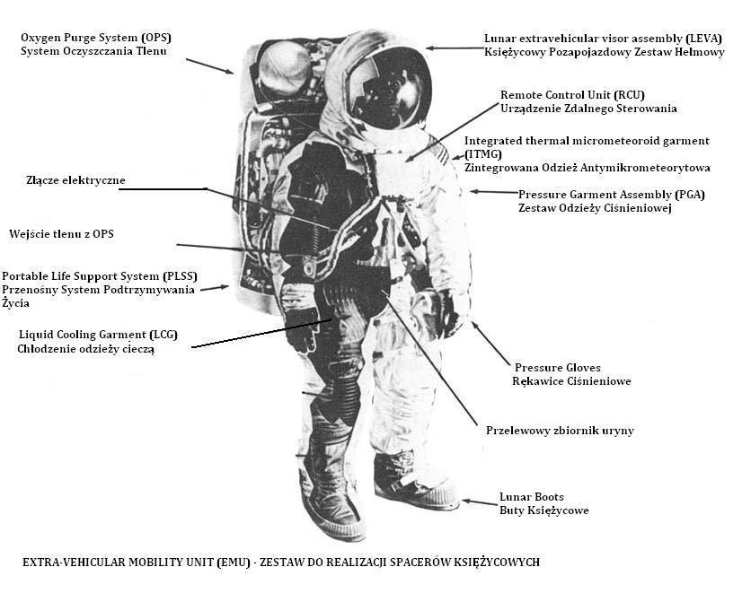 Apollo extravehicular mobility unit